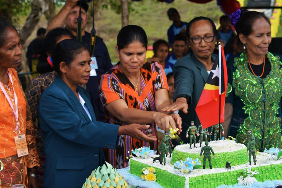 Monument dedicated to the victims of 1985 Tchaivatcha Tragedy, Souro Suco, Lautém District, East Timor. Inauguration 2015-7-21 On the photo: First lady Isabel da Costa Ferreira (orange) and Albina Marçal Freitas (blue)